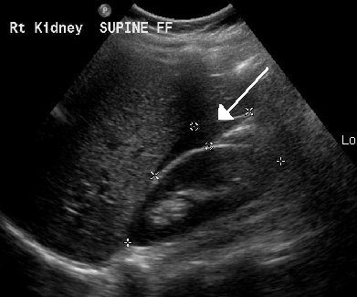 Fluid in between the liver and kidney in a person who has an ectopic pregnancy